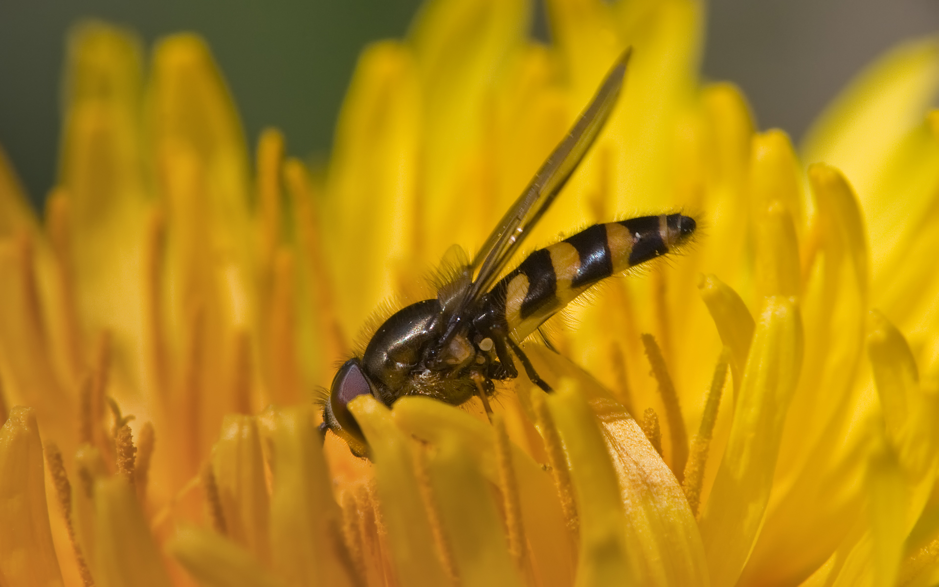 Hoverfly (Parasyrphus annulatus)